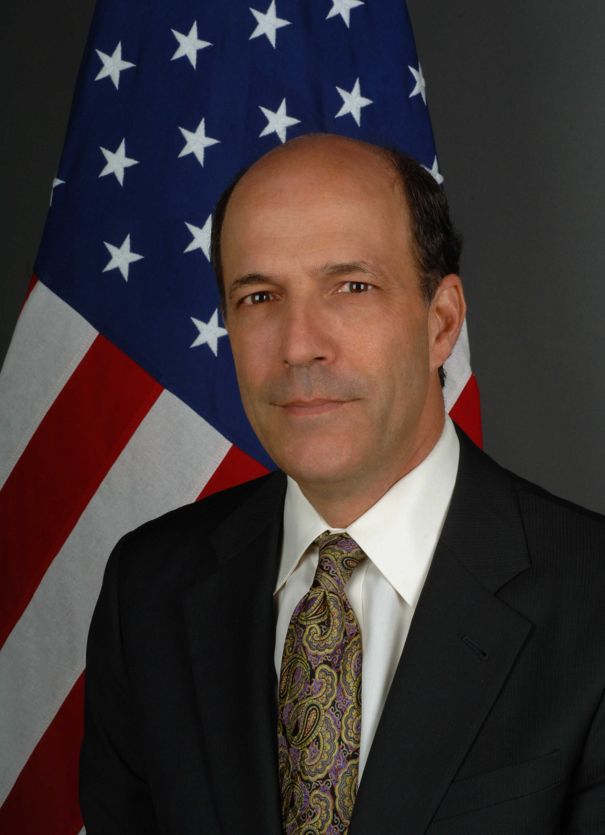 Portrait of John V. Roos, U.S. Ambassador to Japan, from U.S. Department of State web site